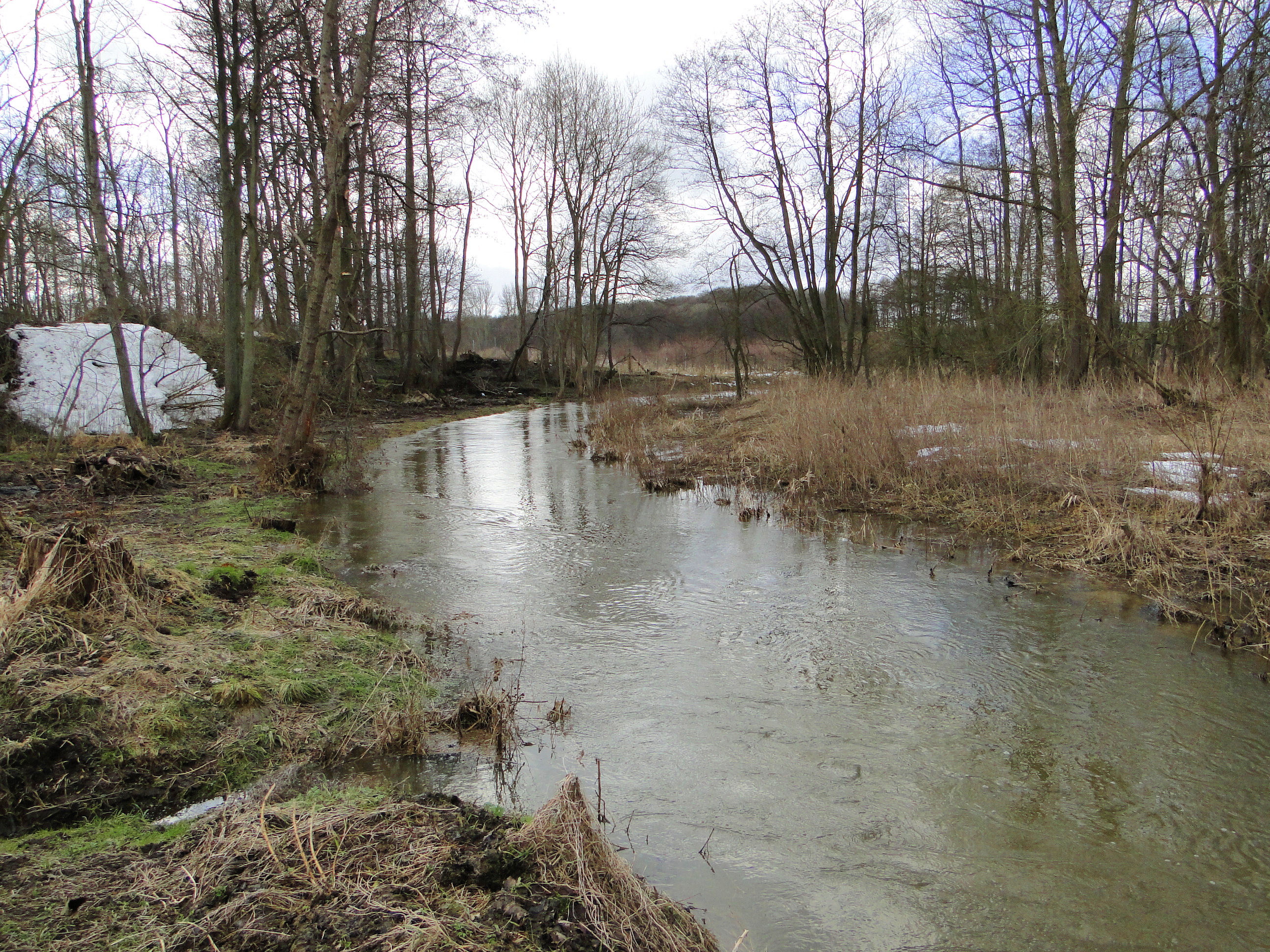 Maurine river in Törpt, disctrict Nordwestmecklenburg, Mecklenburg-Vorpommern, Germany